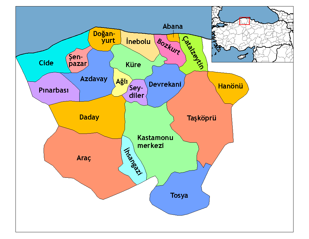 Map of the districts of Kastamonu province in Turkey. Created by Rarelibra 21:59, 1 December 2006 (UTC) for public domain use, using MapInfo Professional v8.5 and various mapping resources. Edited by One Homo Sapiens Corrected text where İ,Ş,ı,ğ,or ş occurs in name. Source: [statoids-com]. Increased font size and enhanced color differences among adjacent districts.